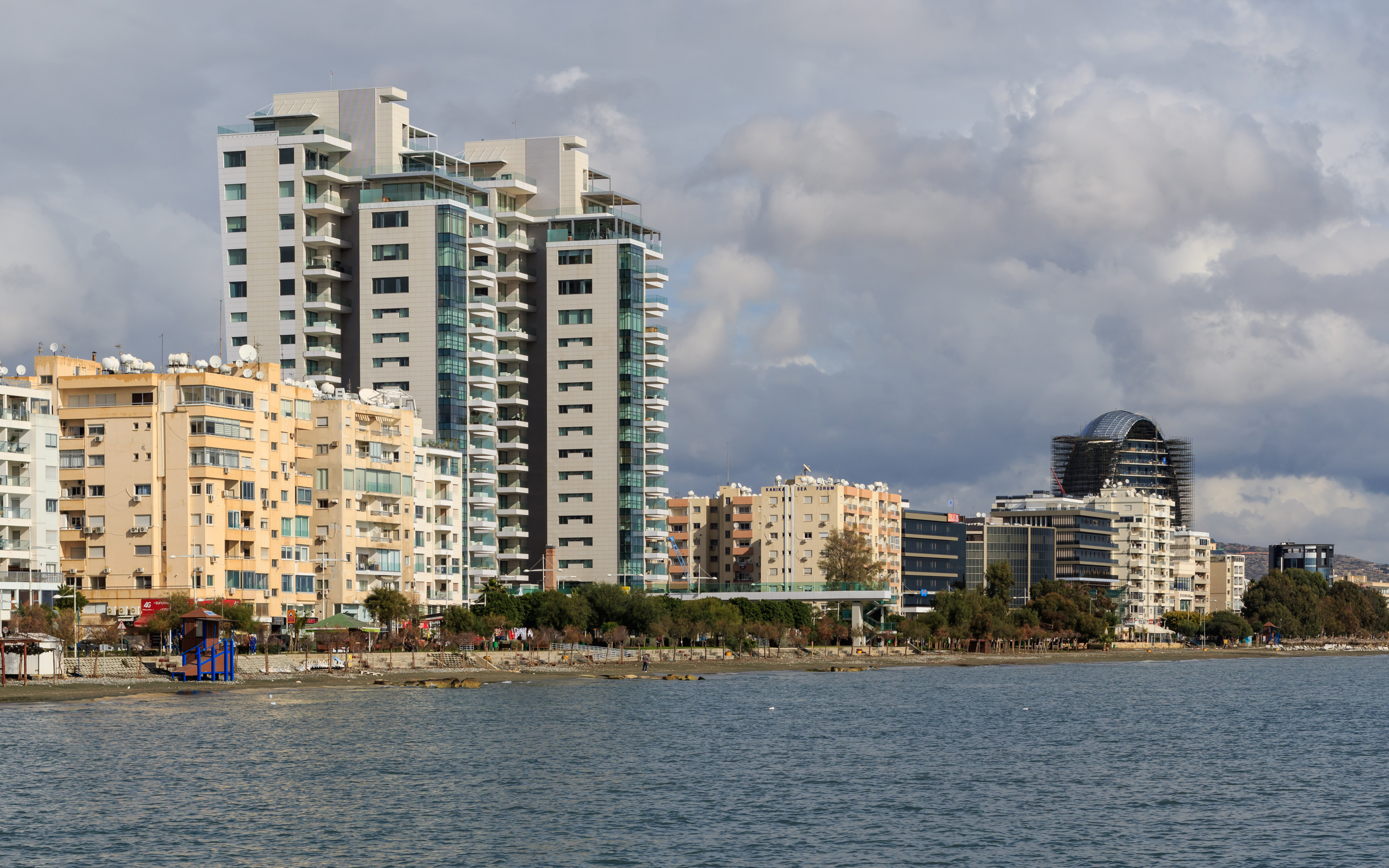 View towards Olympic Residence Towers in Limassol, Cyprus